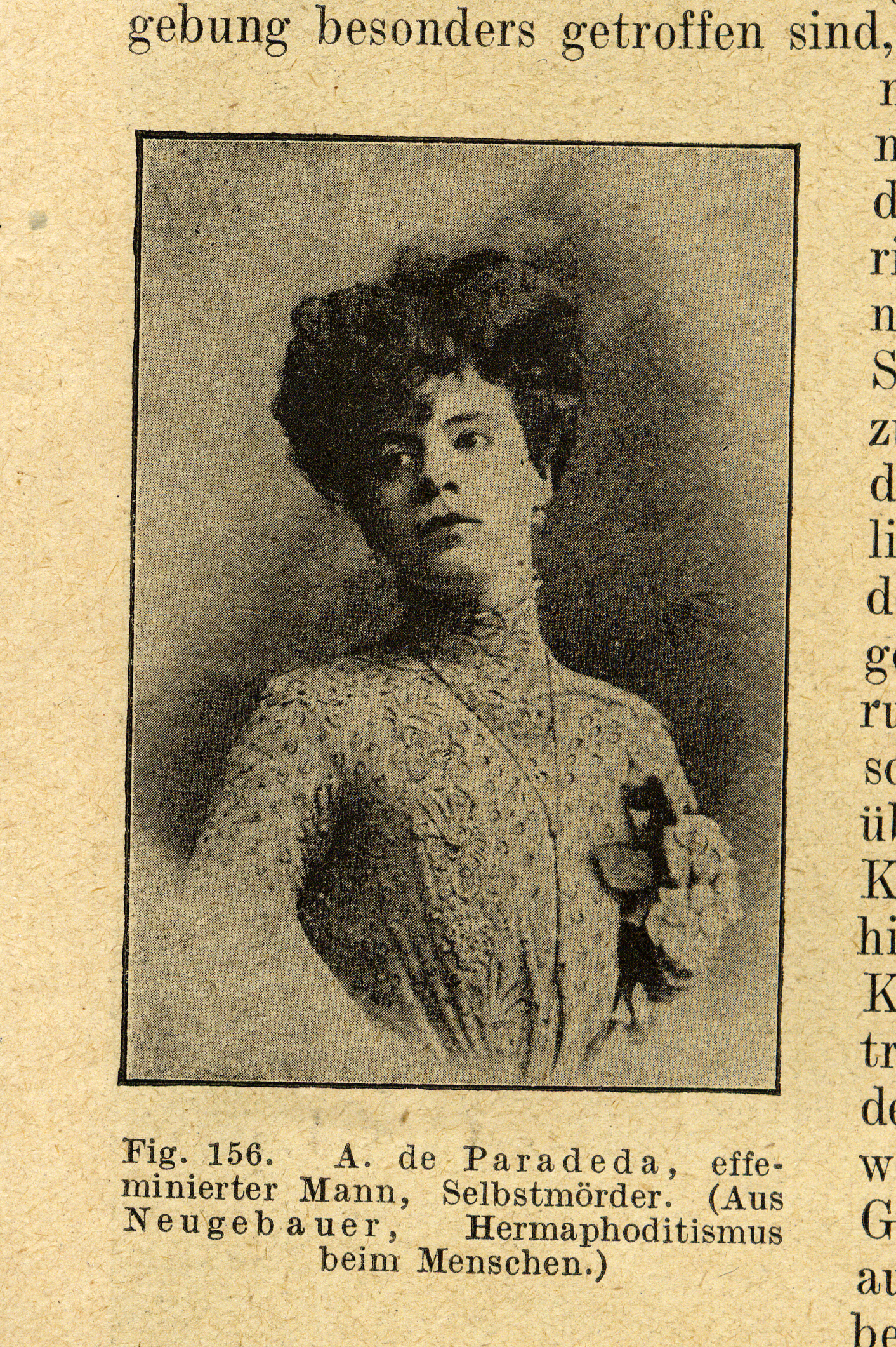 From the book: Albert Moll, Handbuch der Sexualwissenschaften, Verlag Von F.C. Vogel, Leipzig 1921. Picture by Stefano Bolognini.